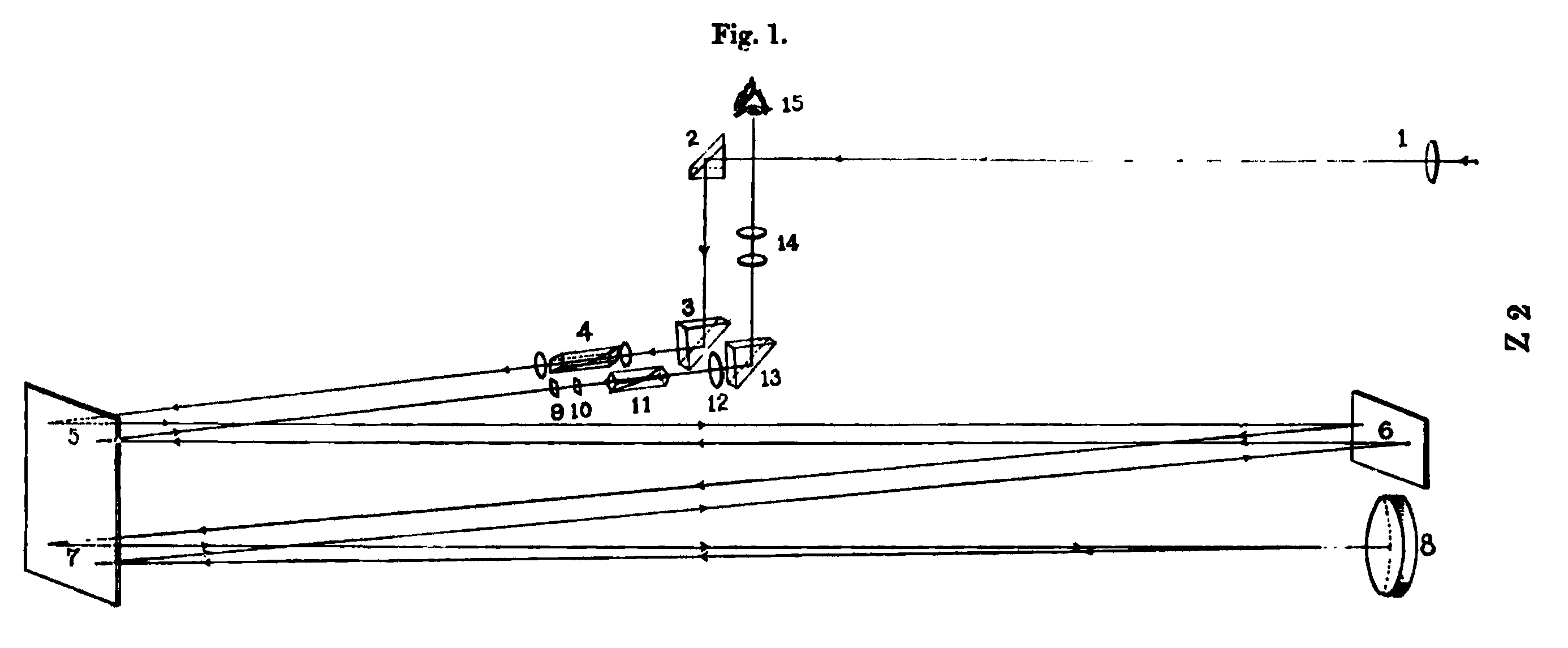 Description of Experiment